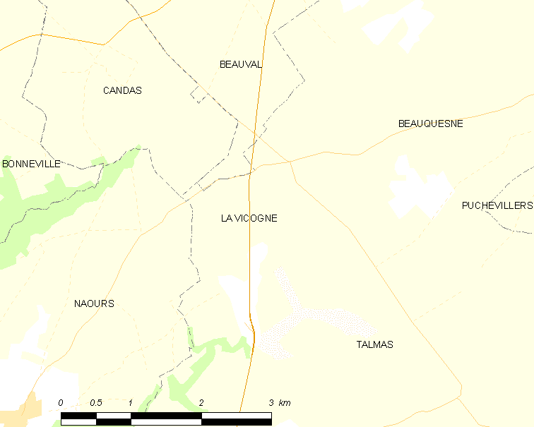 Map of French municipality La Vicogne